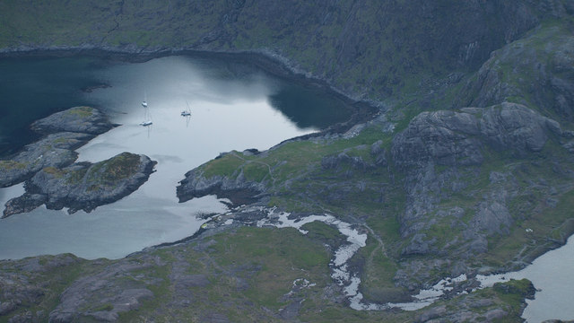 Loch na Cuilce The anchorage at Loch na Cuilce, at the northern end of Loch Scavaig, and River Scavaig, taken from Sgurr na Stri summit at 10.40 pm.